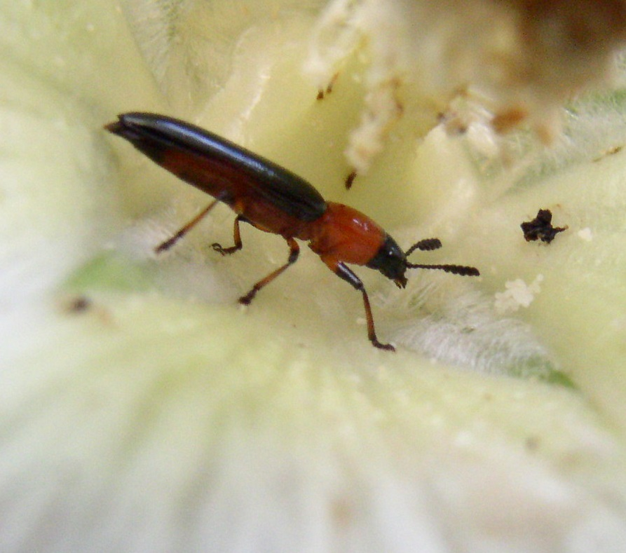 Lizard beetle, Languria angustata, on flower. Size: 6-9 mm. Pennypack Restoration Trust, Montgomery County, Pennsylvania, USA.